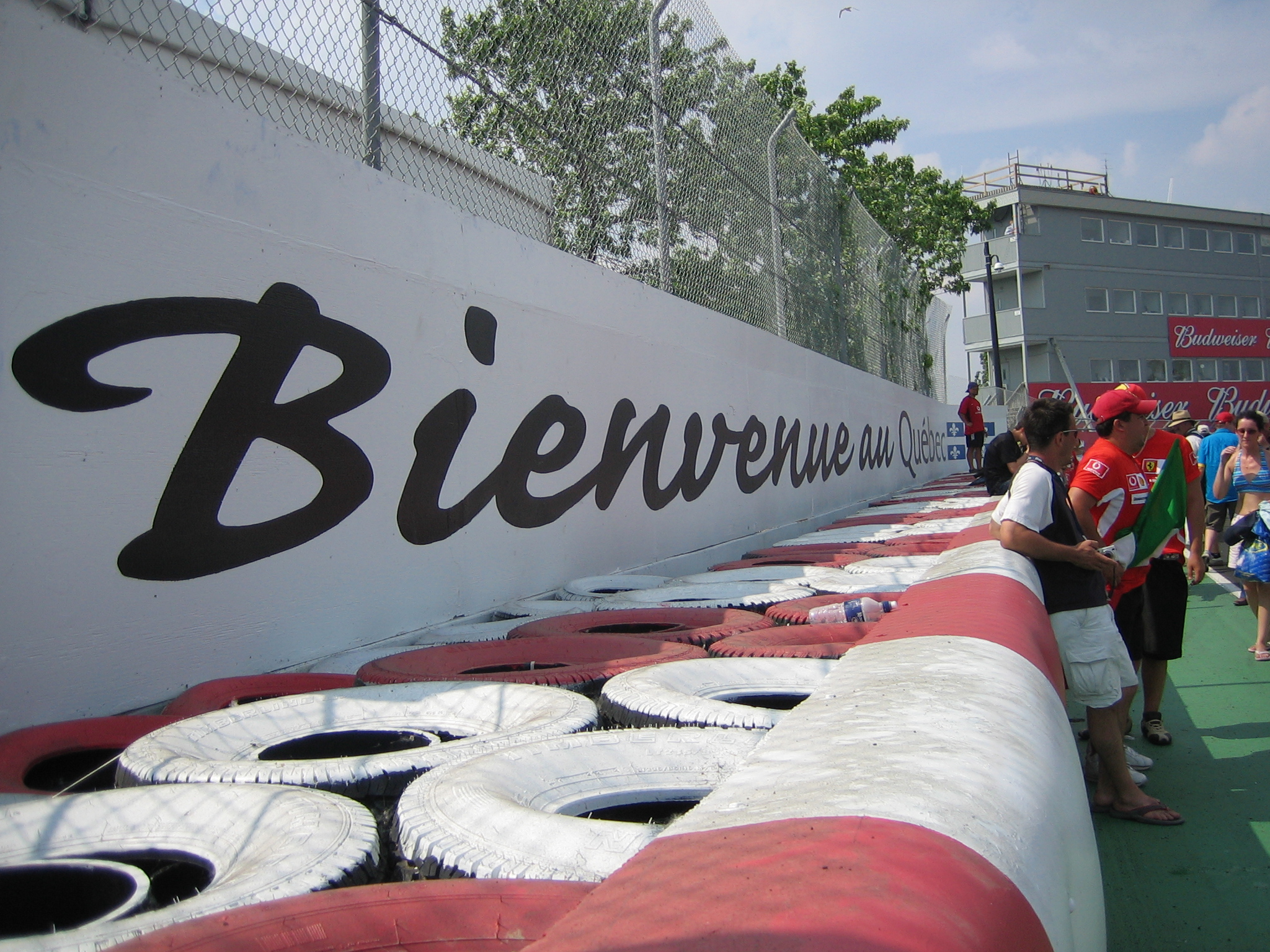 Circuit Gilles Villeneuve Famous Wall of the Champions